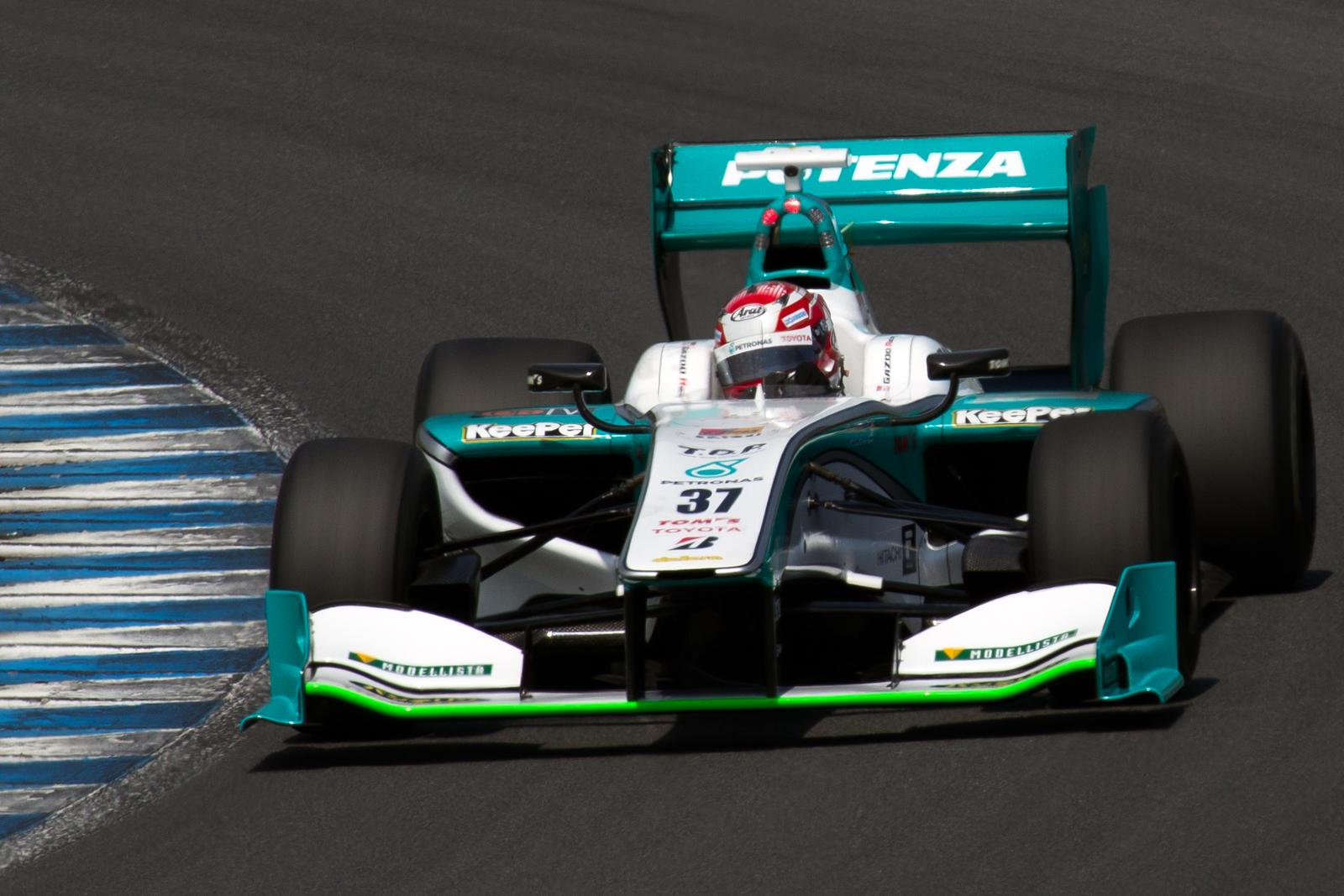 Super Formula 2014 Rd.4 Motegi: Kazuki Nakajima (Team TOM'S)